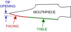 Author: Edward Grabczewski